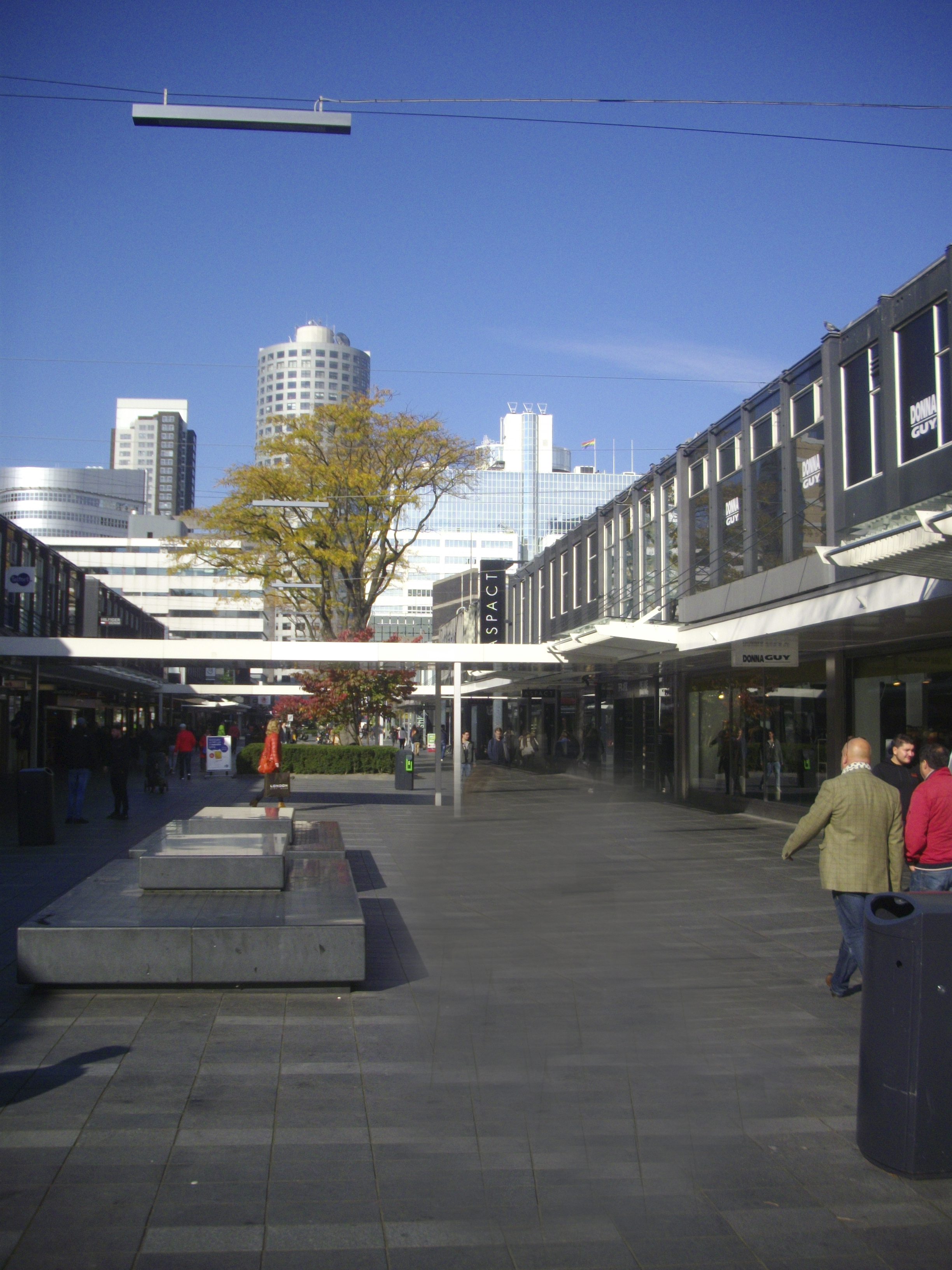 Lijnbaan, Rotterdam, Oct.2015